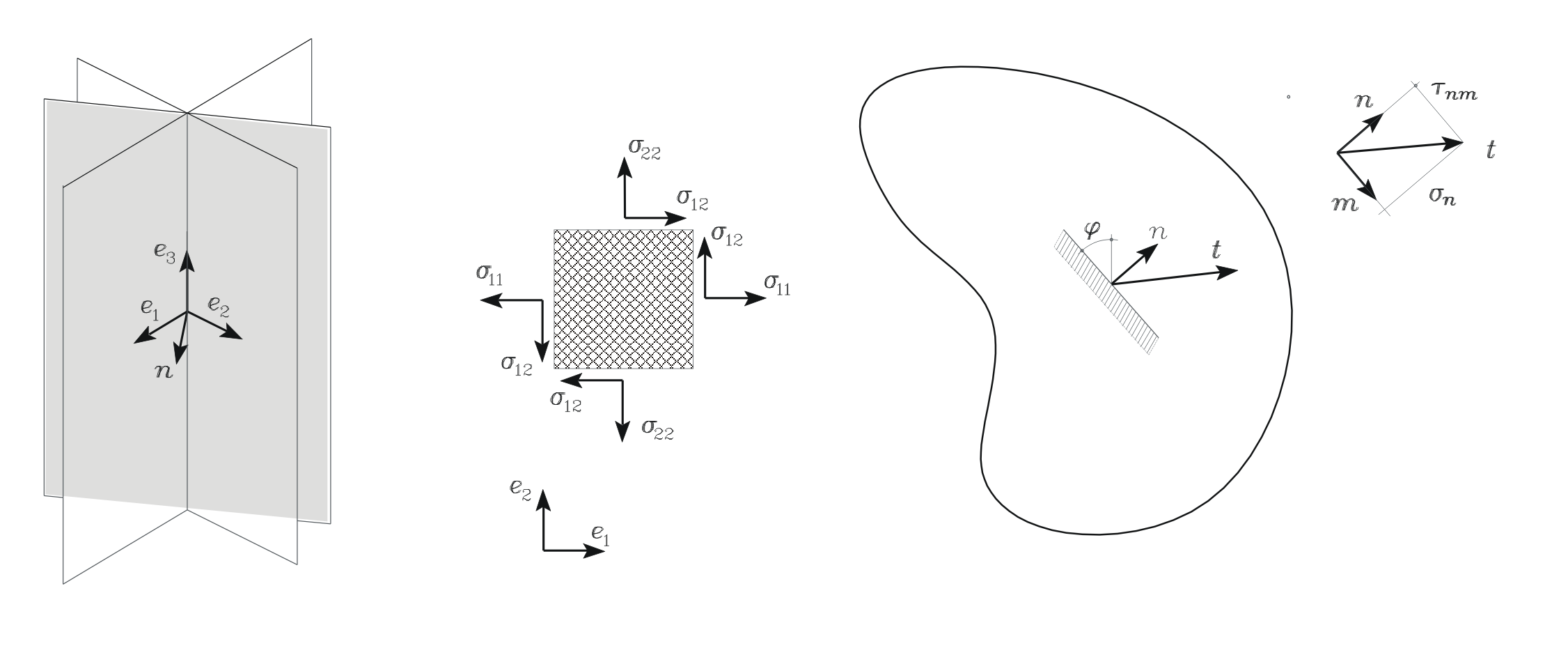 Plane state of stress